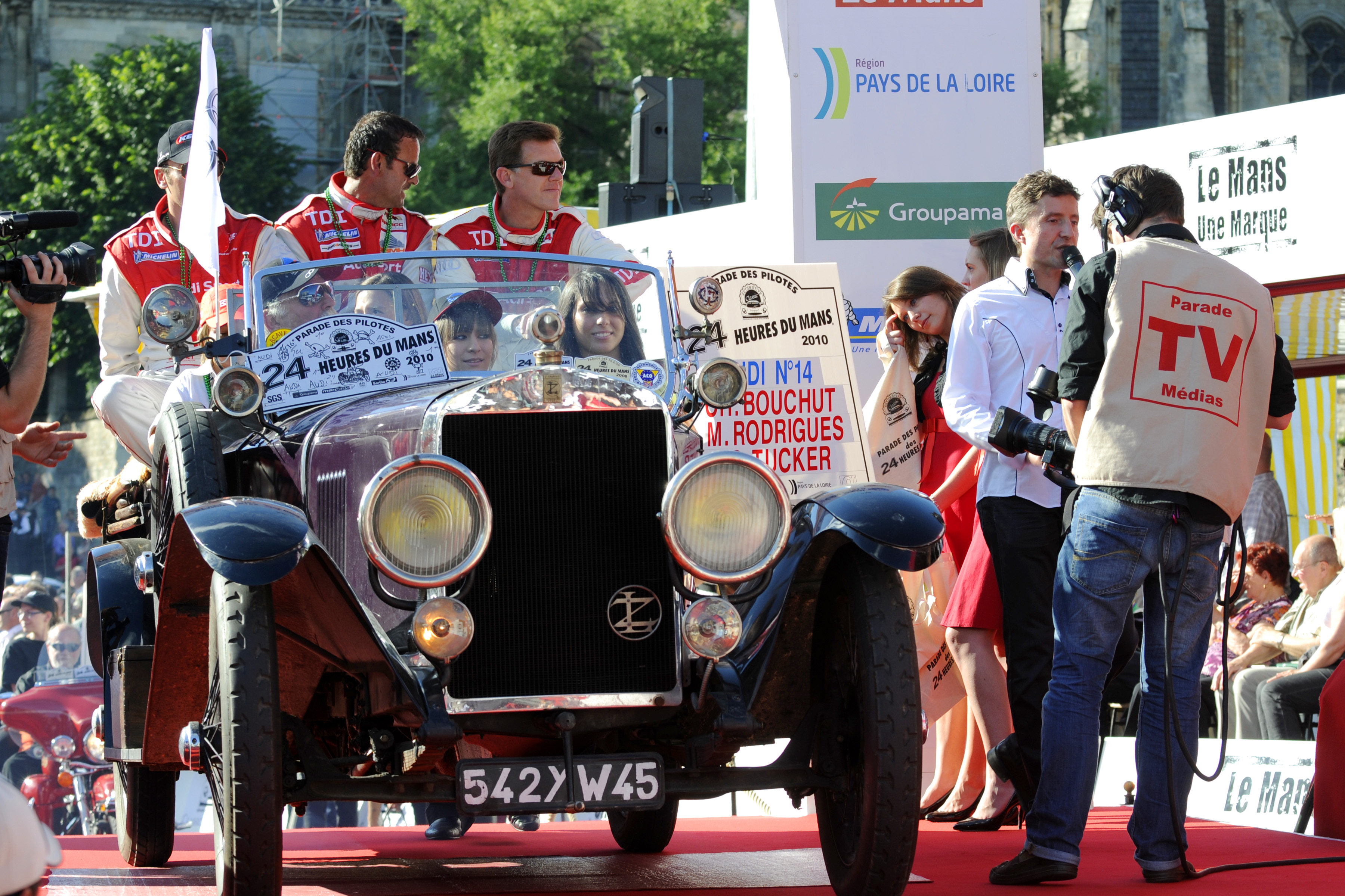 Scott Tucker at the 2010 Le Mans - Drivers' Parade Le Mans 2010